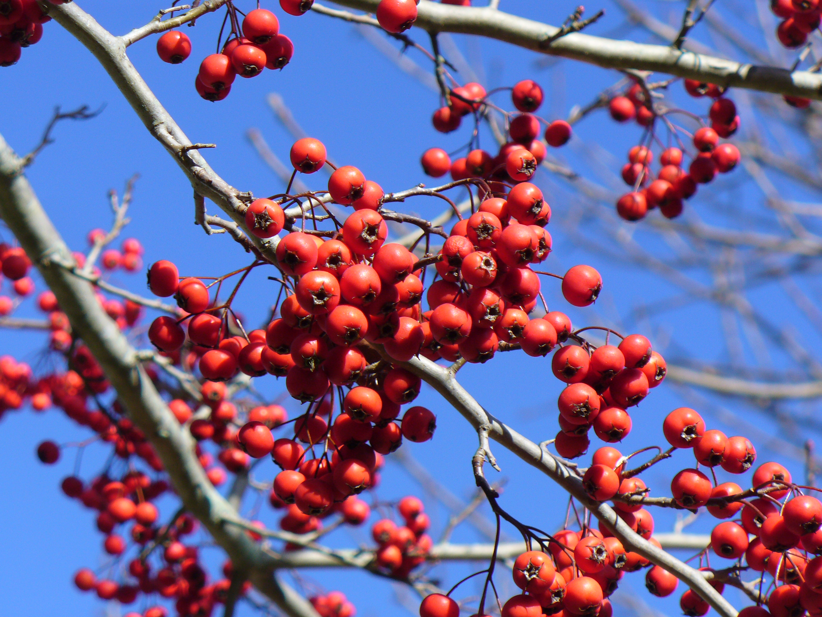 Crataegus viridis 'Winter King', North Carolina Arboretum, Asheville, North Carolina, USA.